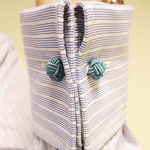 Charvet shirt cuff